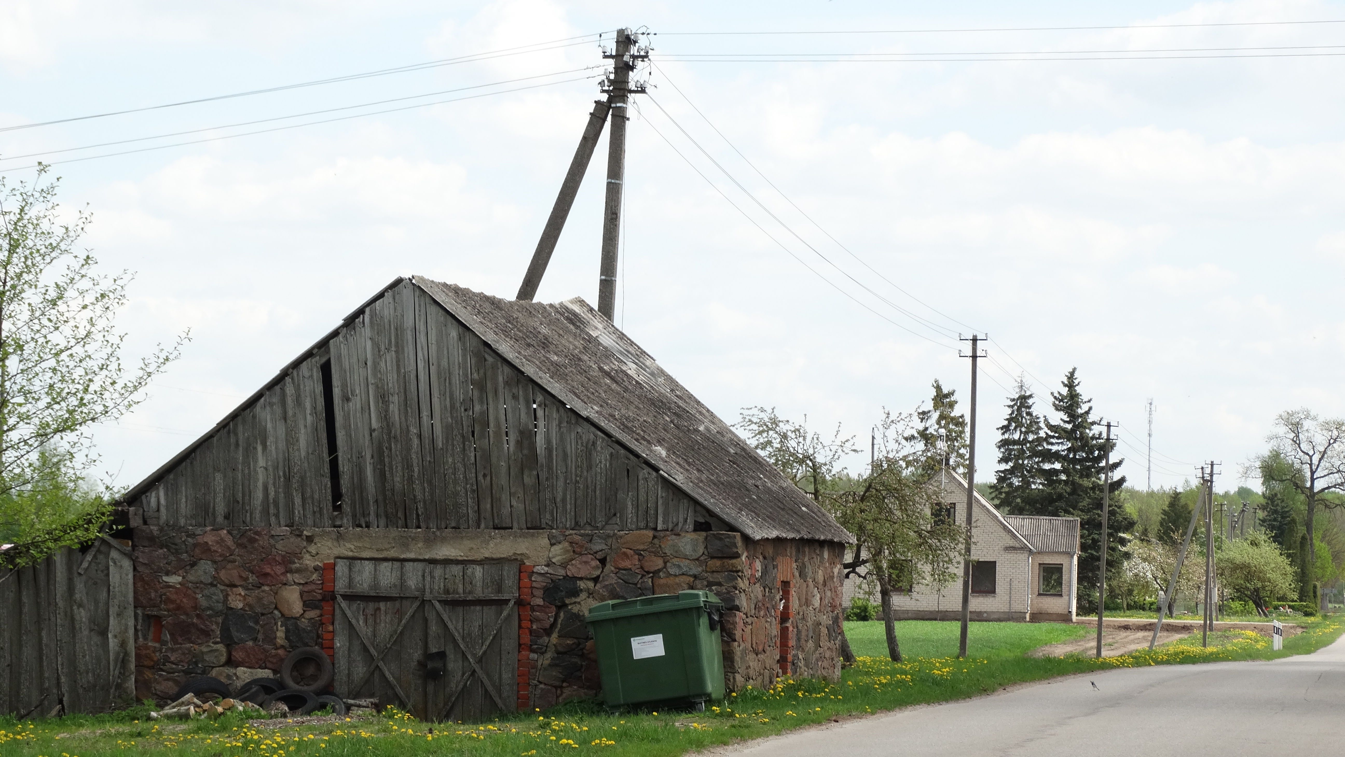 Vileikiai, Radviliškis district, Lithuania